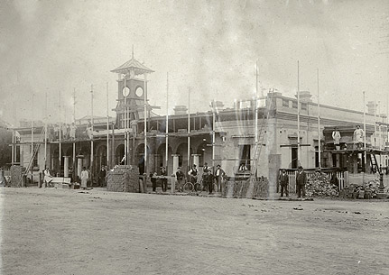 Mudgee Post Office Dated: No date Digital ID: 4346_a020_a020000112 Rights: We'd love to hear from you if you use our photos. Many other photos in our collection are available to view and browse on our website using Photo Investigator.